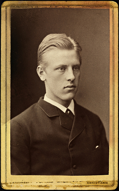 Fridtjof Nansen, ca 1880 Nansen as a student, taken in Christiania Photographer: L. Szacinski (Christiania)